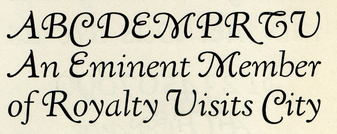 The font Kennerley Old Style with swash capitals on a metal type specimen book